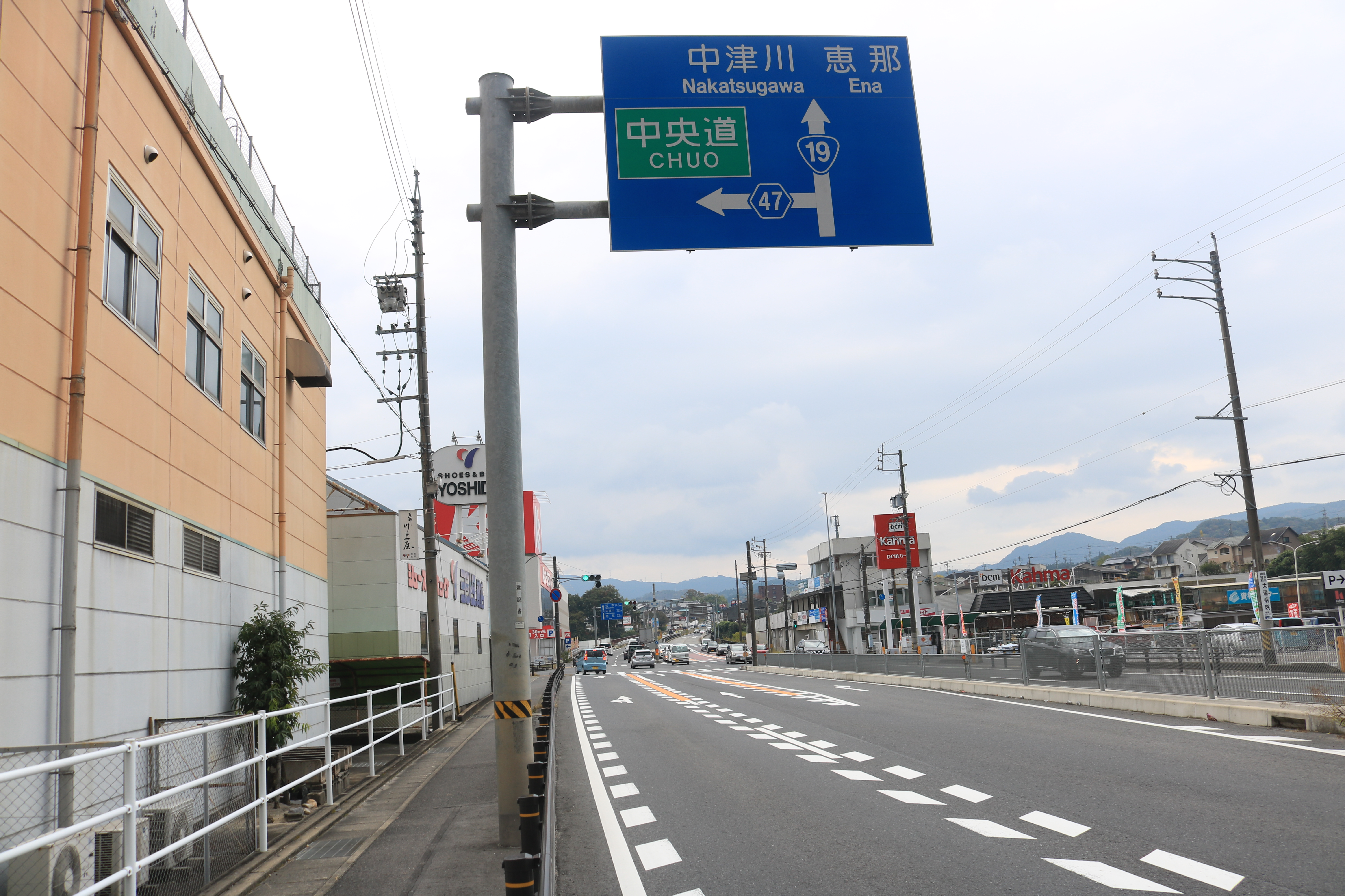 Route 19 and Gifu Prefectural Road Route 47 in Yakushichō, Mizunami, Gifu Prefecture, Japan.